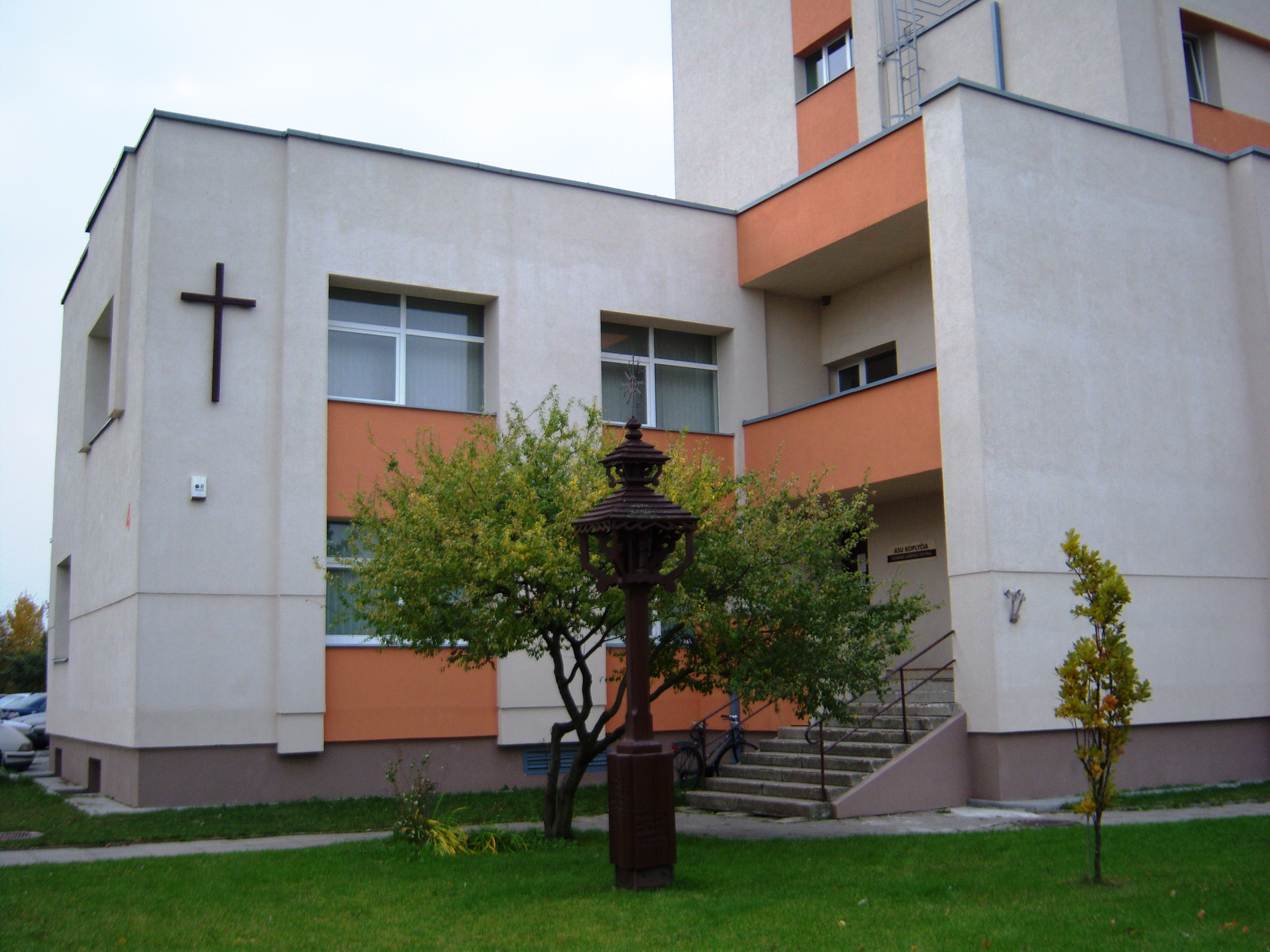 Aleksandras Stulginskis University Chapel, Akademija, Lithuania